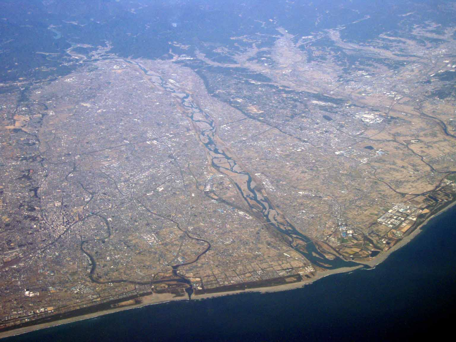 Aerial Photograph of Tenryu River at Shizuoka, JAPAN in 2007.